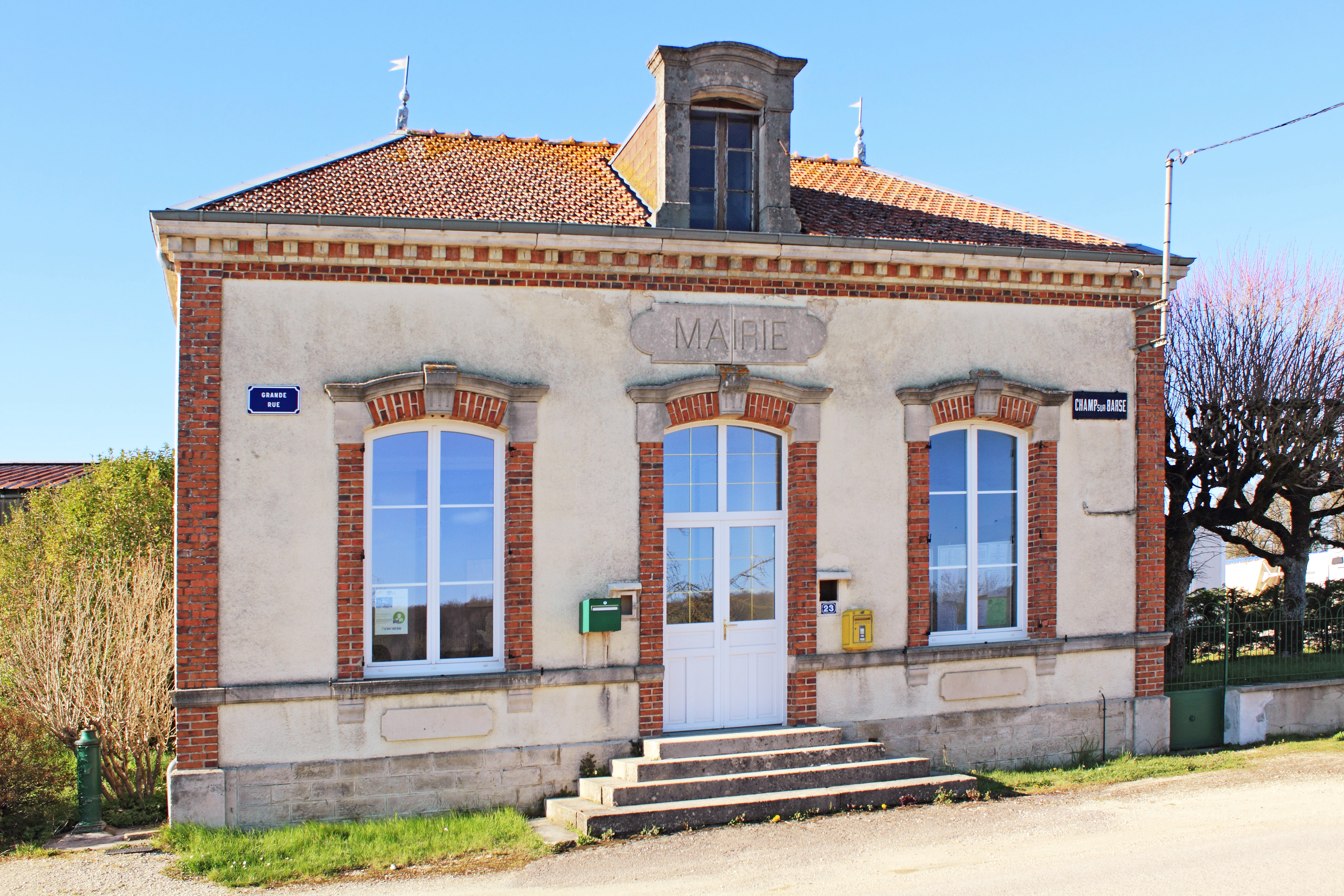 Mairie de Champ-sur-Barse